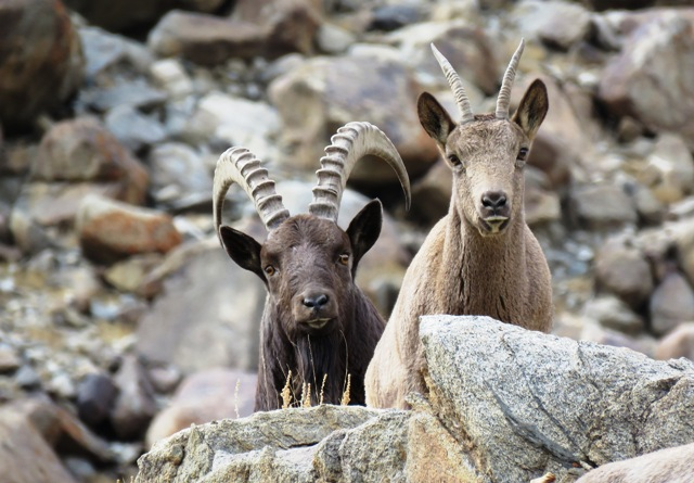 Ibex male and female during the mating season in Phyang village.